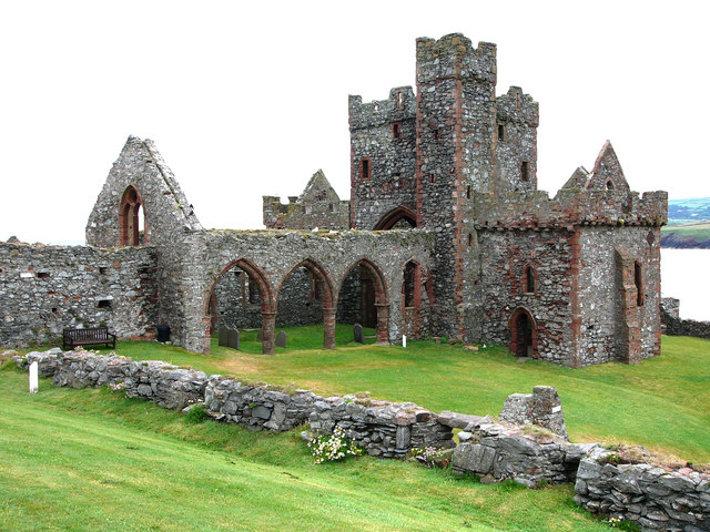 St German's Cathedral on St Patrick's Isle, Peel